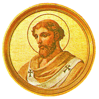 Pope Miltiades (311-314)